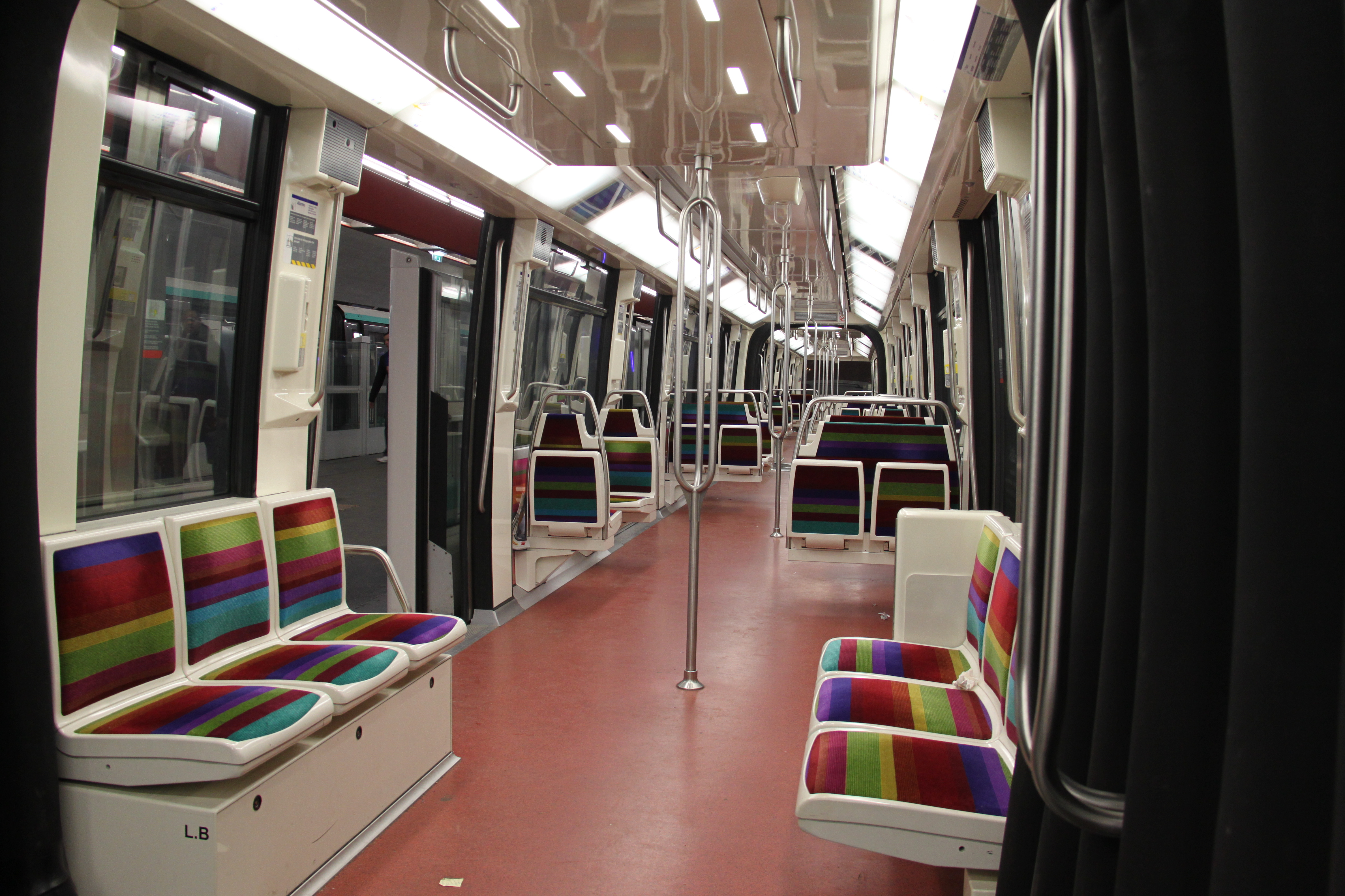 Interior of the MP05 stock in Paris.